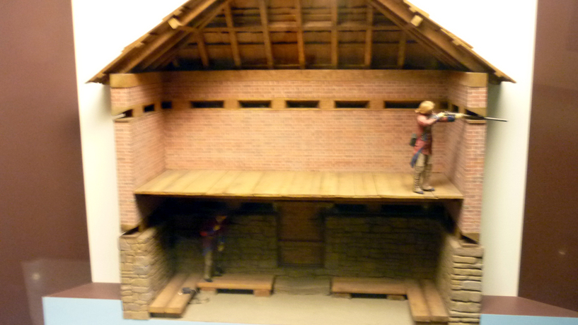 Fort Pitt blockhouse (scaled-down replica).